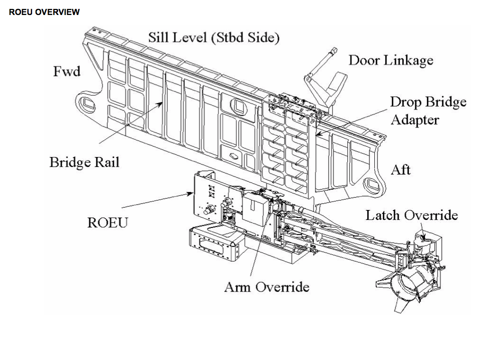 ROEU STS-135